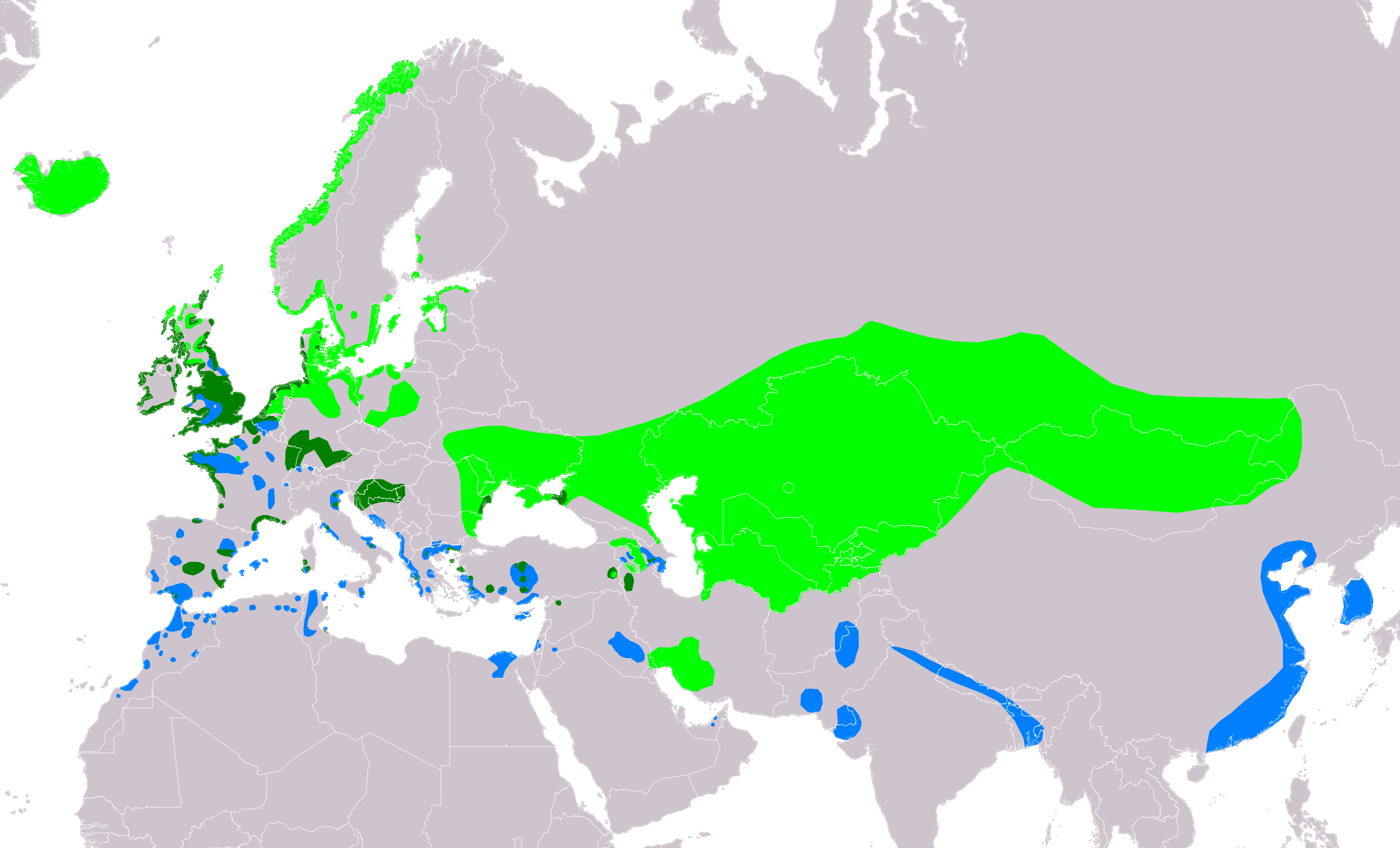 Distribution map of common shelduck (Tadorna tadorna) according to IUCN version 2020.1 (compiled by BirdLife International and Handbook of the Birds of the World (2019) 2019); key: Legend: Extant, breeding (#00FF00), Extant, resident (#008000), Extant, non-breeding (#007FFF)